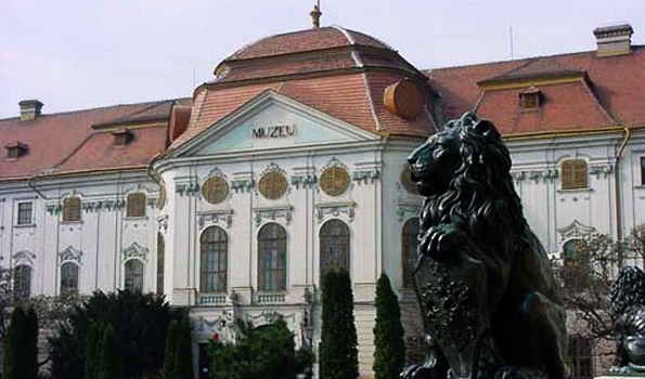 Palace Barokk in Oradea